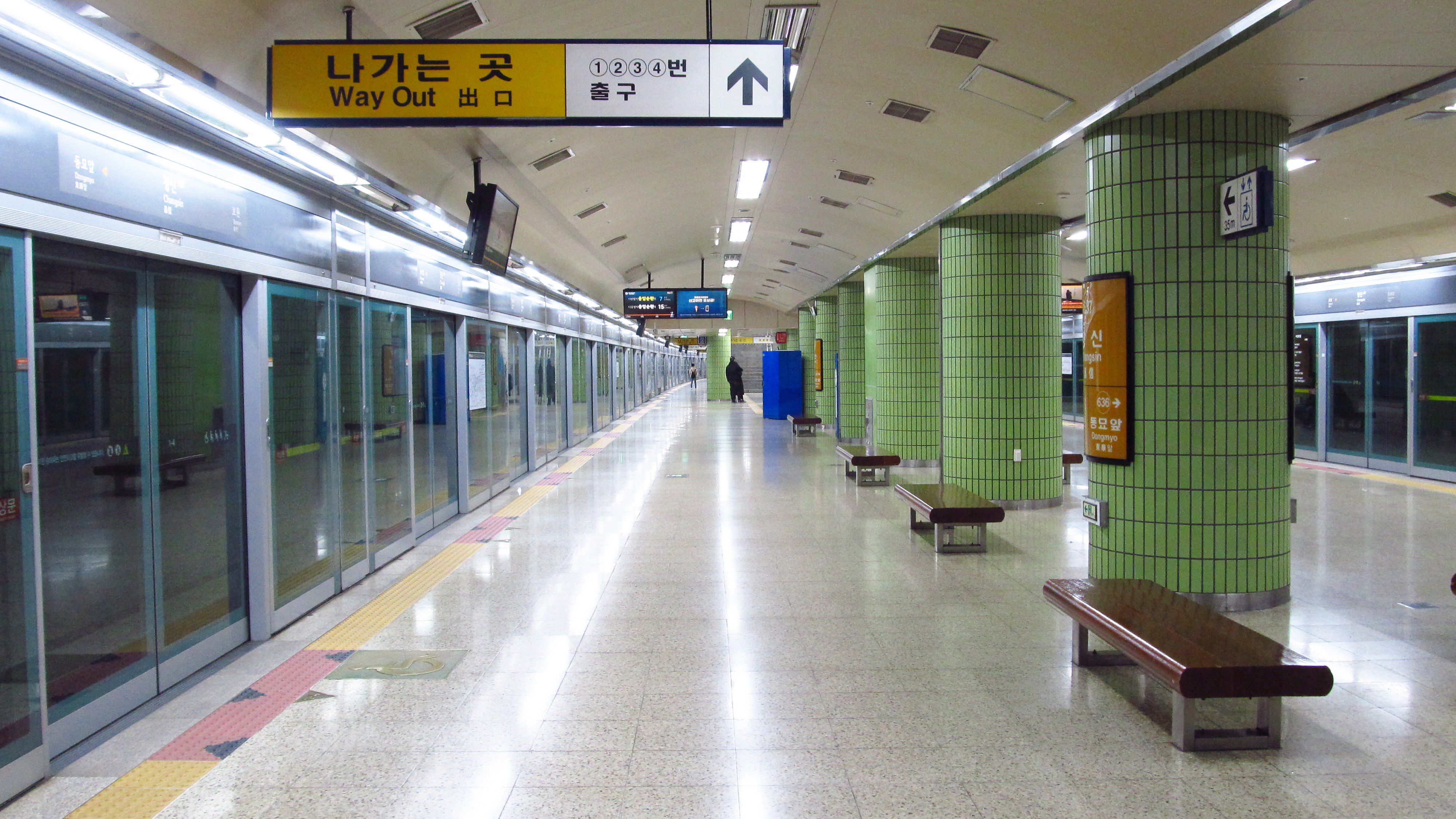 The platform at Changsin Station on Seoul Subway Line 6 in Jongno-gu, Seoul, Republic of Korea(South Korea)